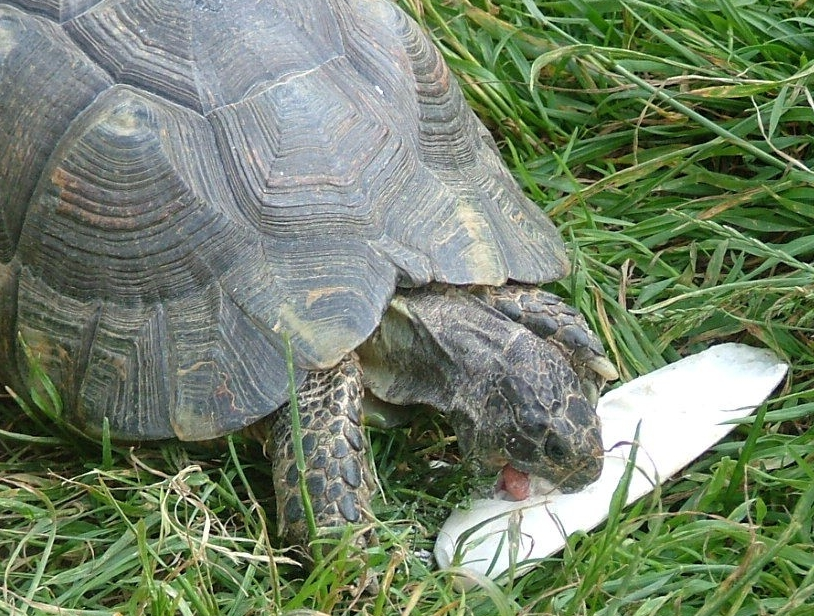 Turtle and Sepia